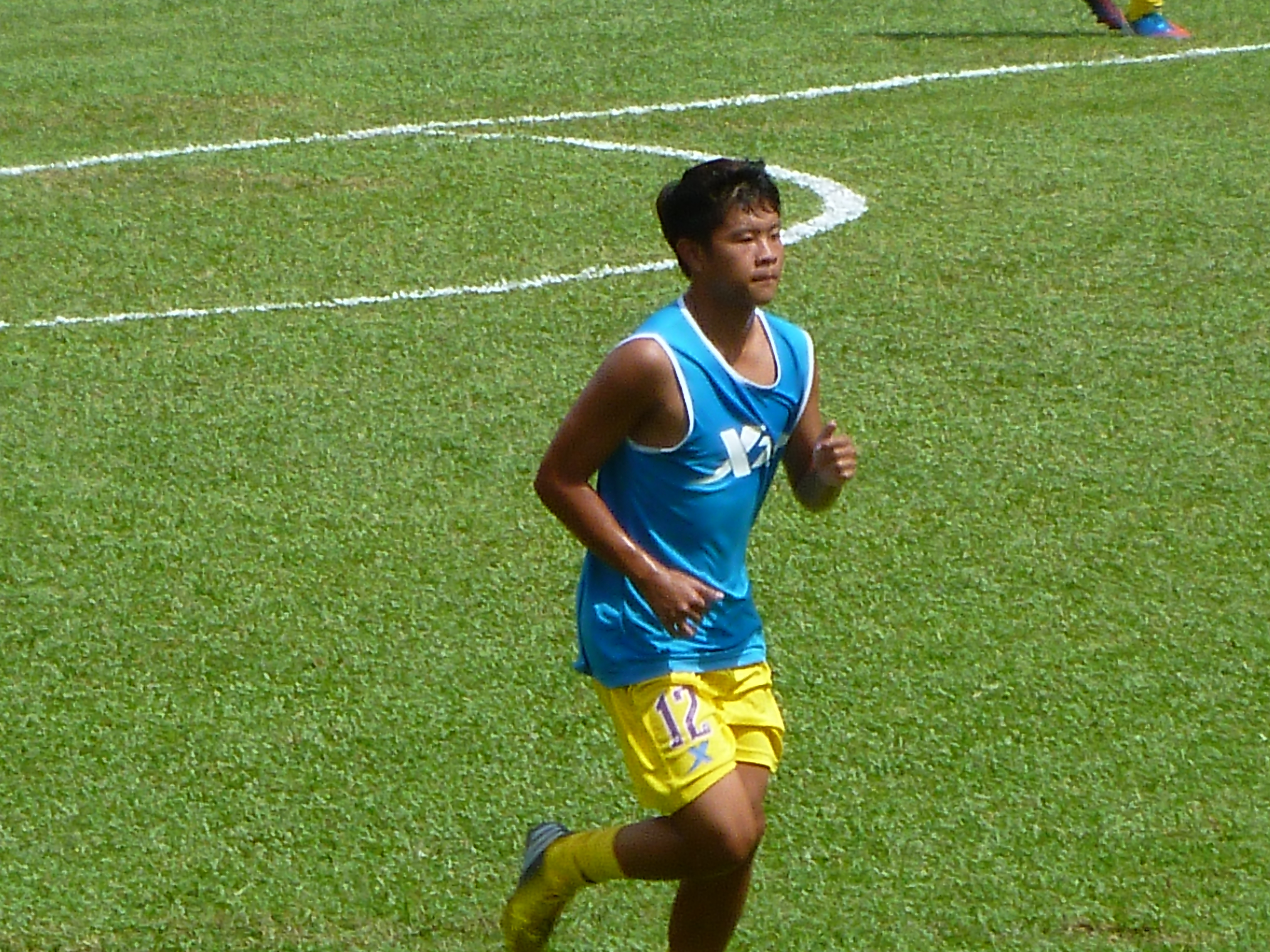 Li Ka Chun (22 Sept 2012 Hong Kong Senior Shield, Rangers vs Citizen, Sham Shui Po Sports Ground) 中文（香港）: 李嘉進 (22 Sept 2012 香港高級組銀牌賽第一圈首回合, 流浪 vs 公民, 深水埗運動場)